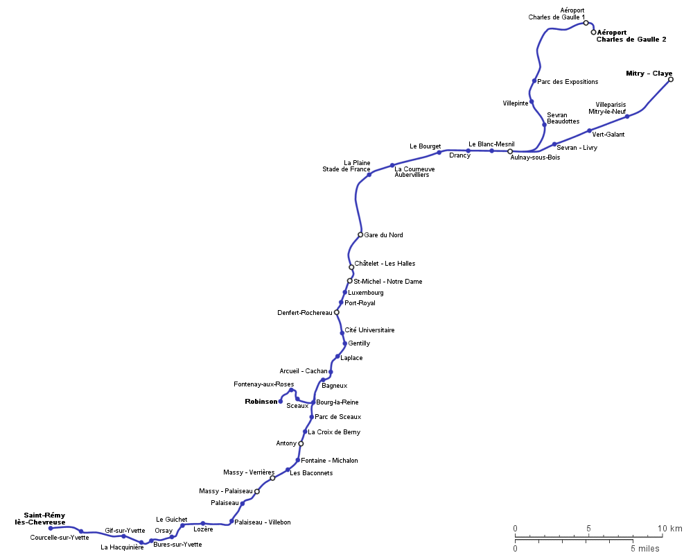 Geographically accurate path of the line B of Paris RER (made by Metropolitan).